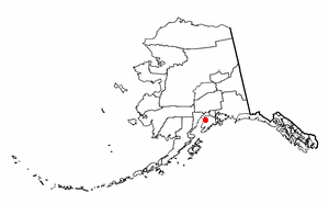 Adapted from Wikipedia's AK borough maps by Seth Ilys.